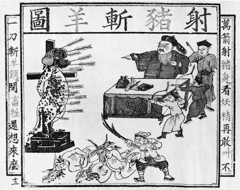 Illustration from the Bixi Jishi, ( A record of facts for fending off heterodoxy ). The most notorious pamphlet in China (1871 edition), where Christianity was ridiculed